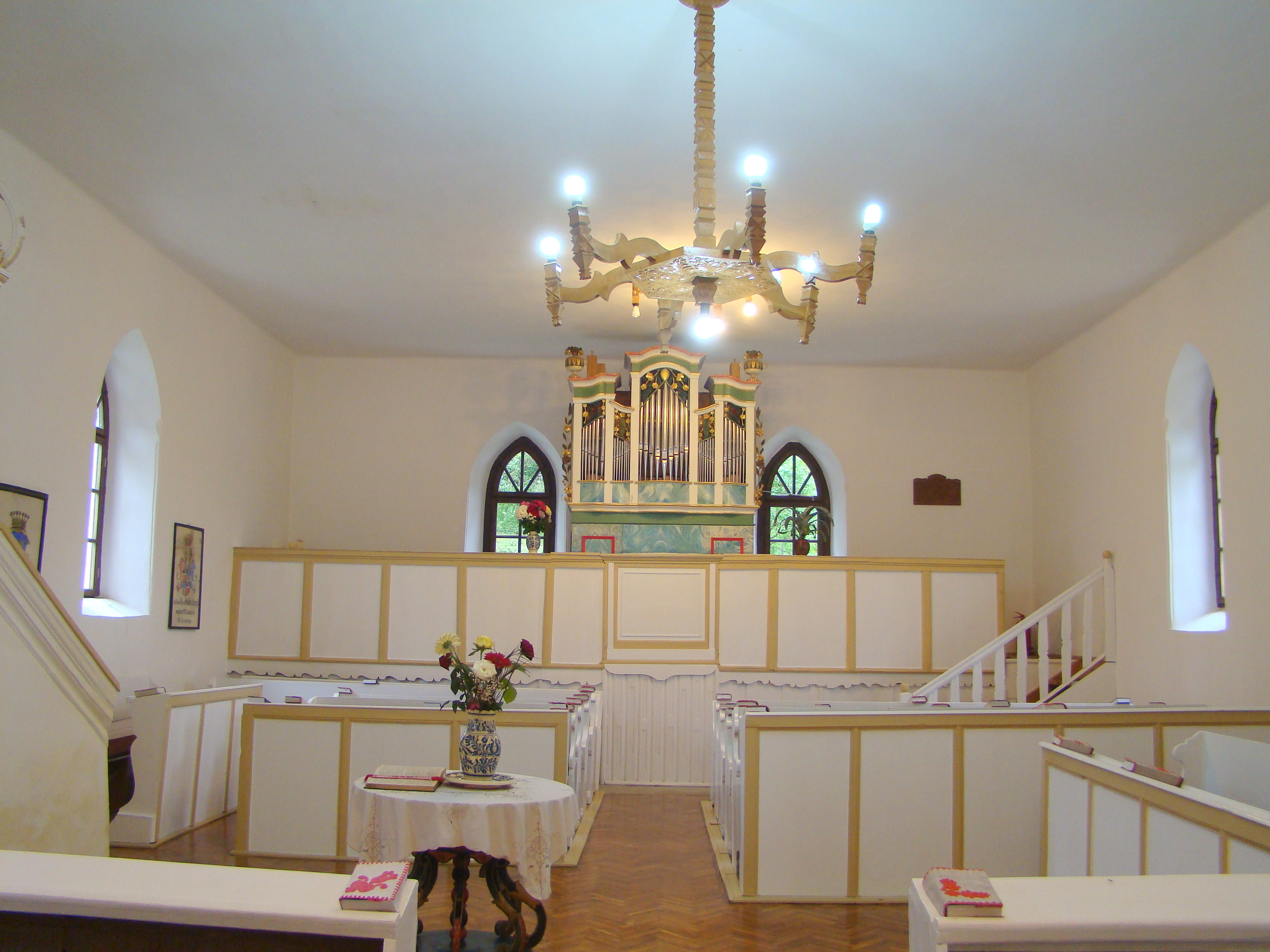 Reformed church in Hoghiz, Brașov county, Romania